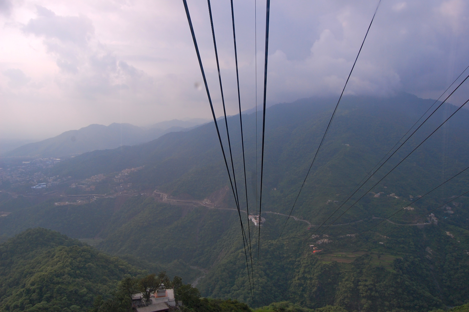 NH 22, across the Jhajjhar, from the cable car.